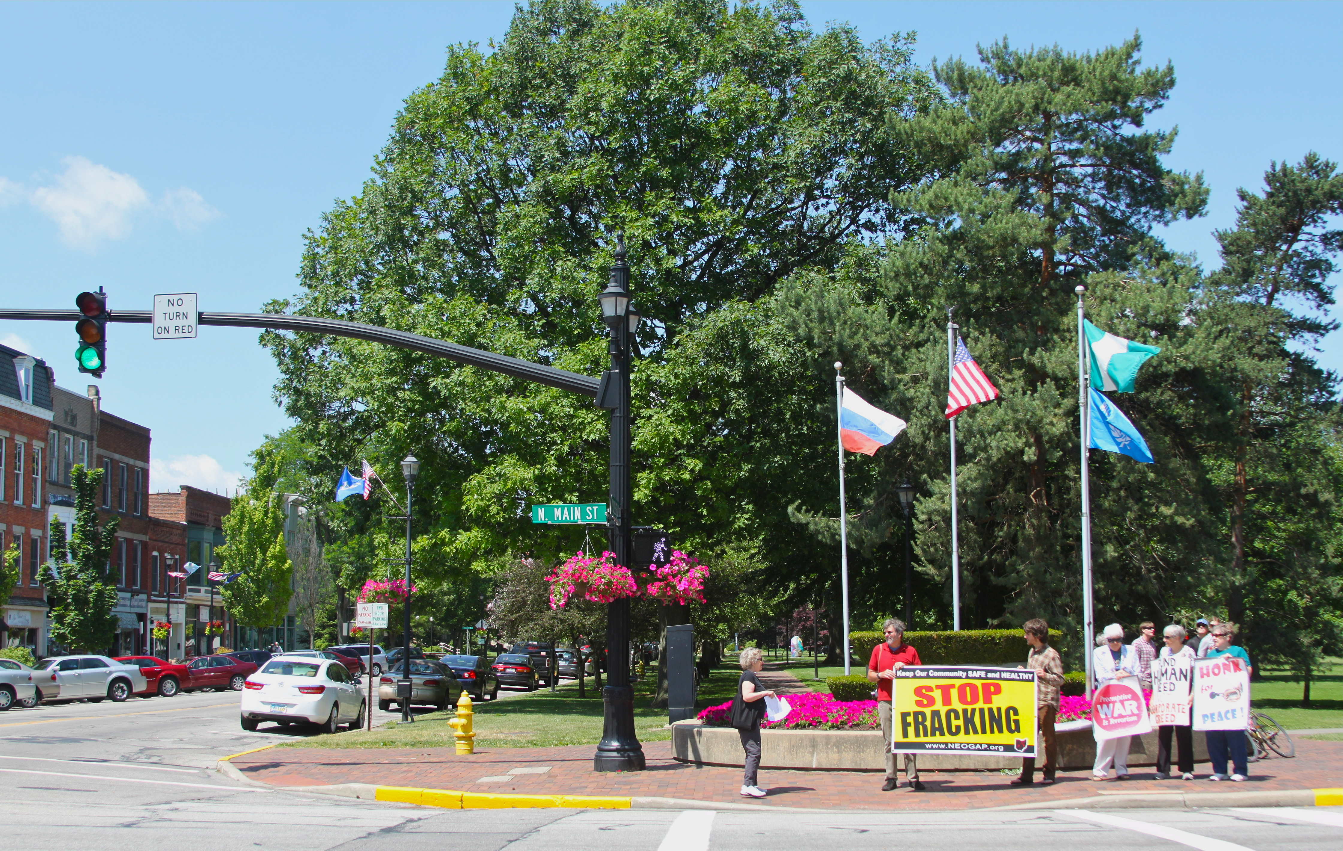 At College and Main St., Oberlin OH. Students and town members protest the War in Afghanistan, and oil well fracking.